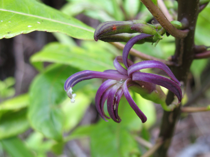 These native members of the bellflower family are widespread on Kohala Mountain.